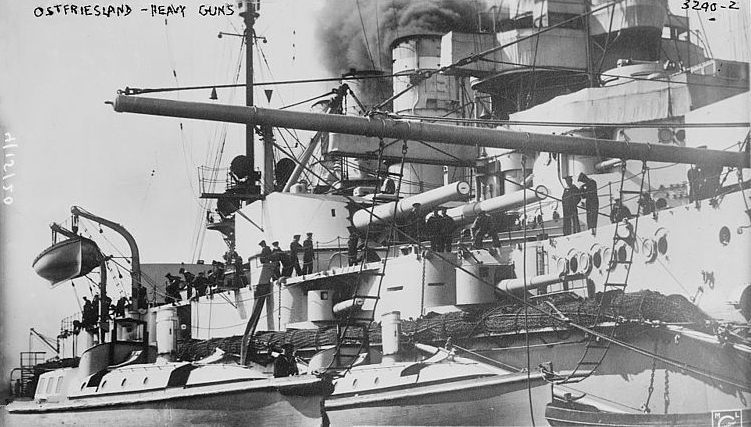 Starboard side of SMS Ostfriesland